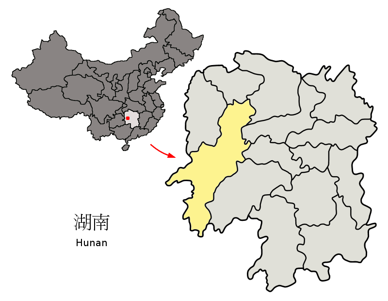 Location of Huaihua Prefecture (yellow) within Hunan Province of China Map drawn in december 2007 using various sources, mainly : Hunan Province administrative regions GIS data: 1:1M, County level, 1990 Hunan Counties map from